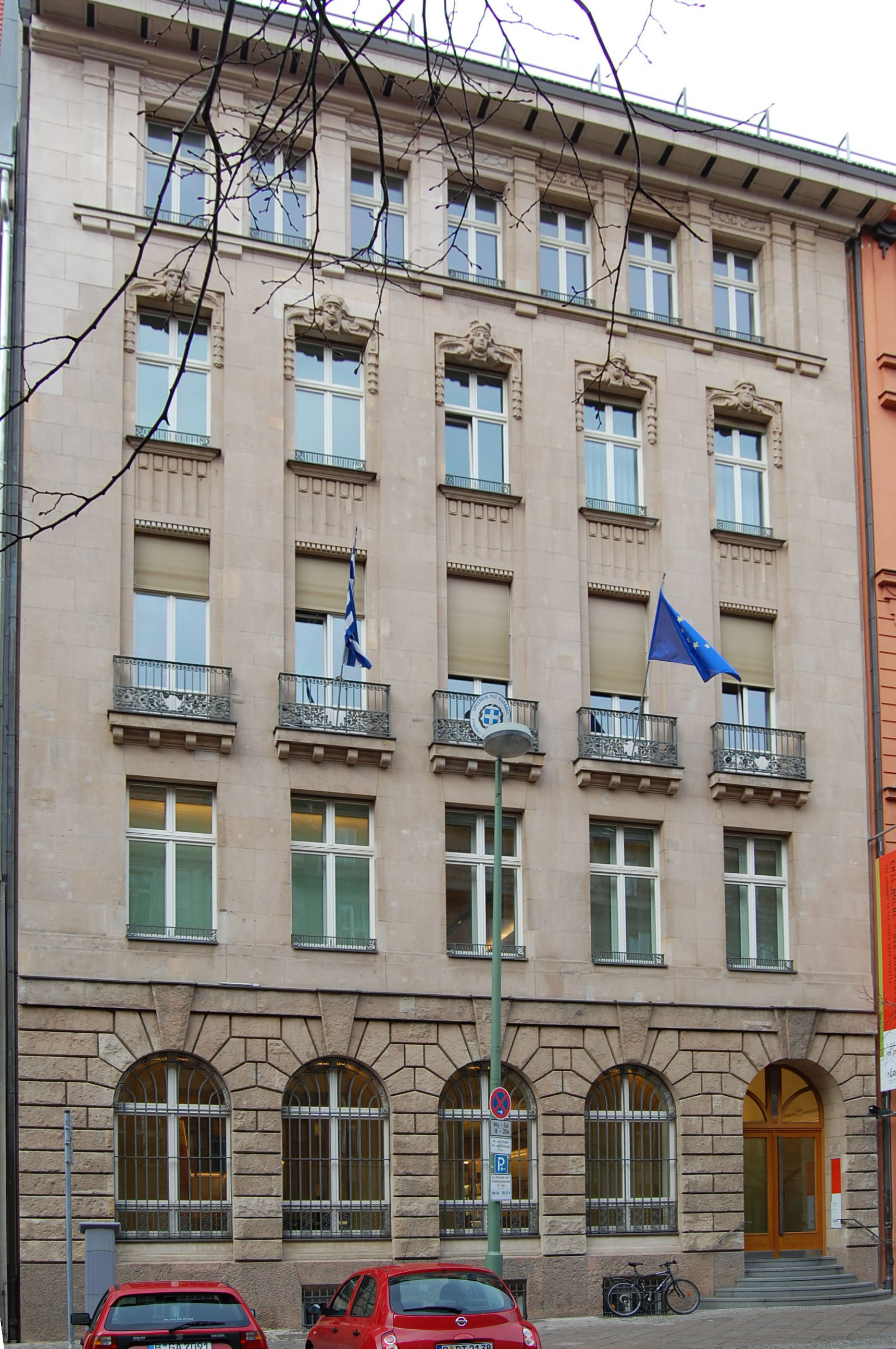 Embassy of Greece in Berlin; Belgian Embassy in the background